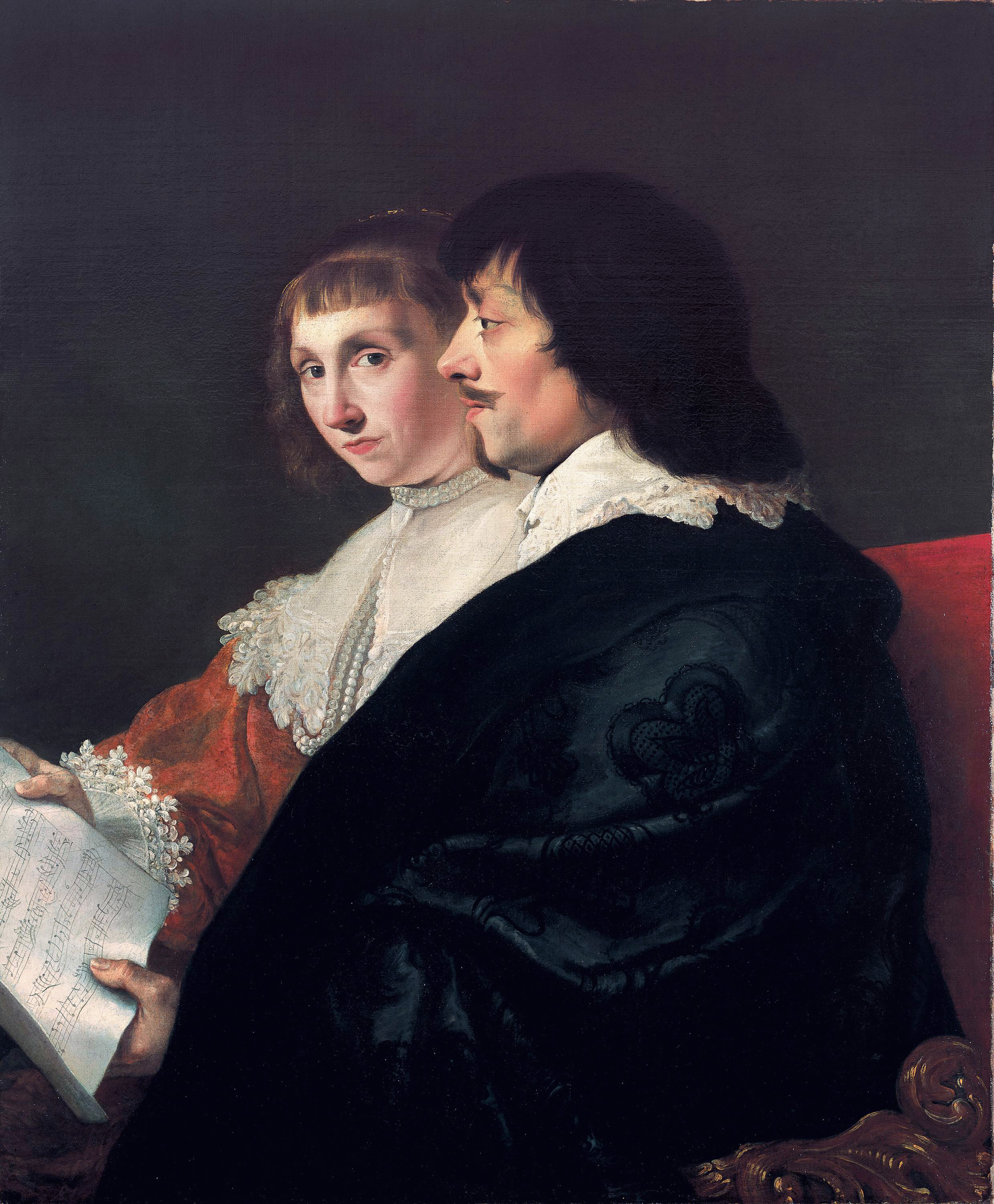 Exceptionally this marriage portrait is a double portrait while in the the seventeenth century normally marriage portraits consisted of two separate paintings.